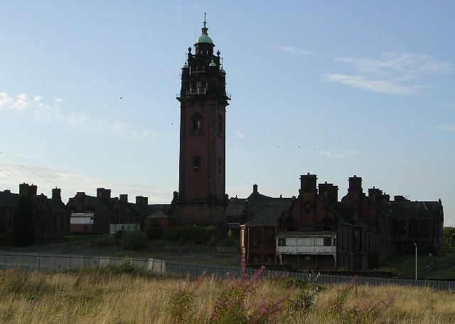 Abandoned Ruchill Hospital.